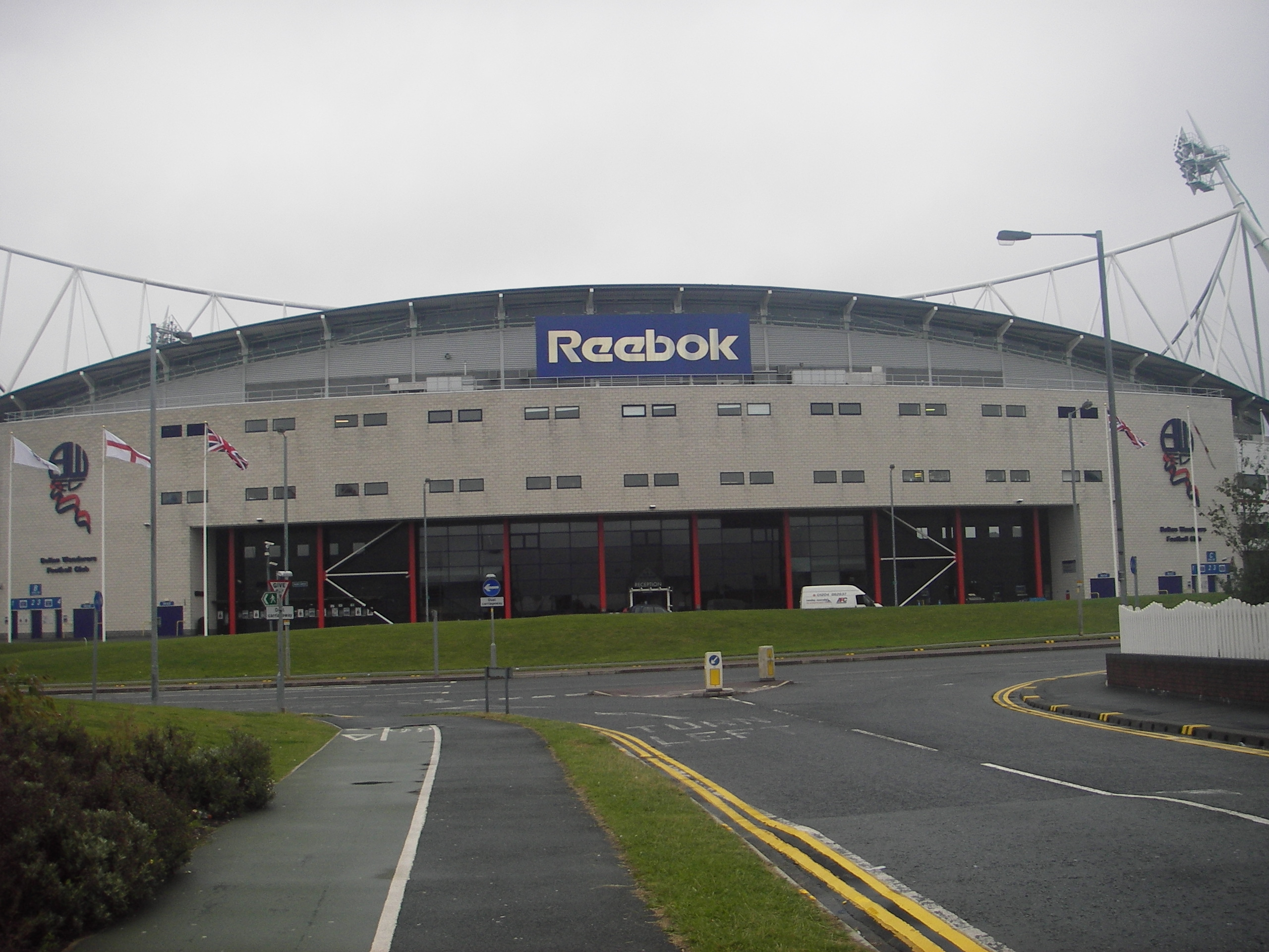 Reebok Stadium, the home ground of Bolton Wanderers.